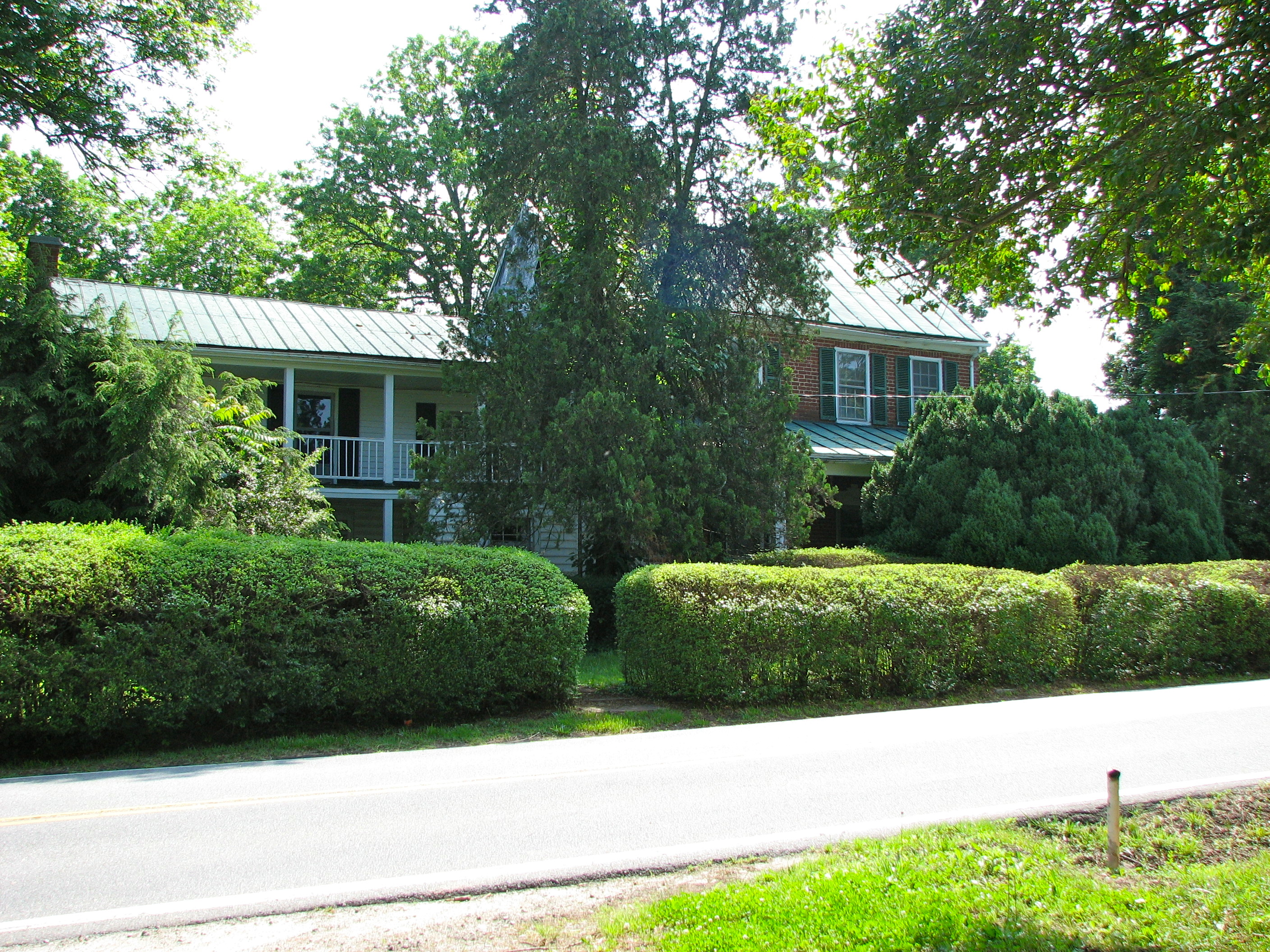 Historic Tavern listed on the National Register of Historic Places in Spotsylvania County, Virginia